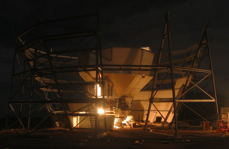 The Atacama Cosmology Telescope, 5 April 2007. The ground screen was still under construction, allowing the telescope to be seen.